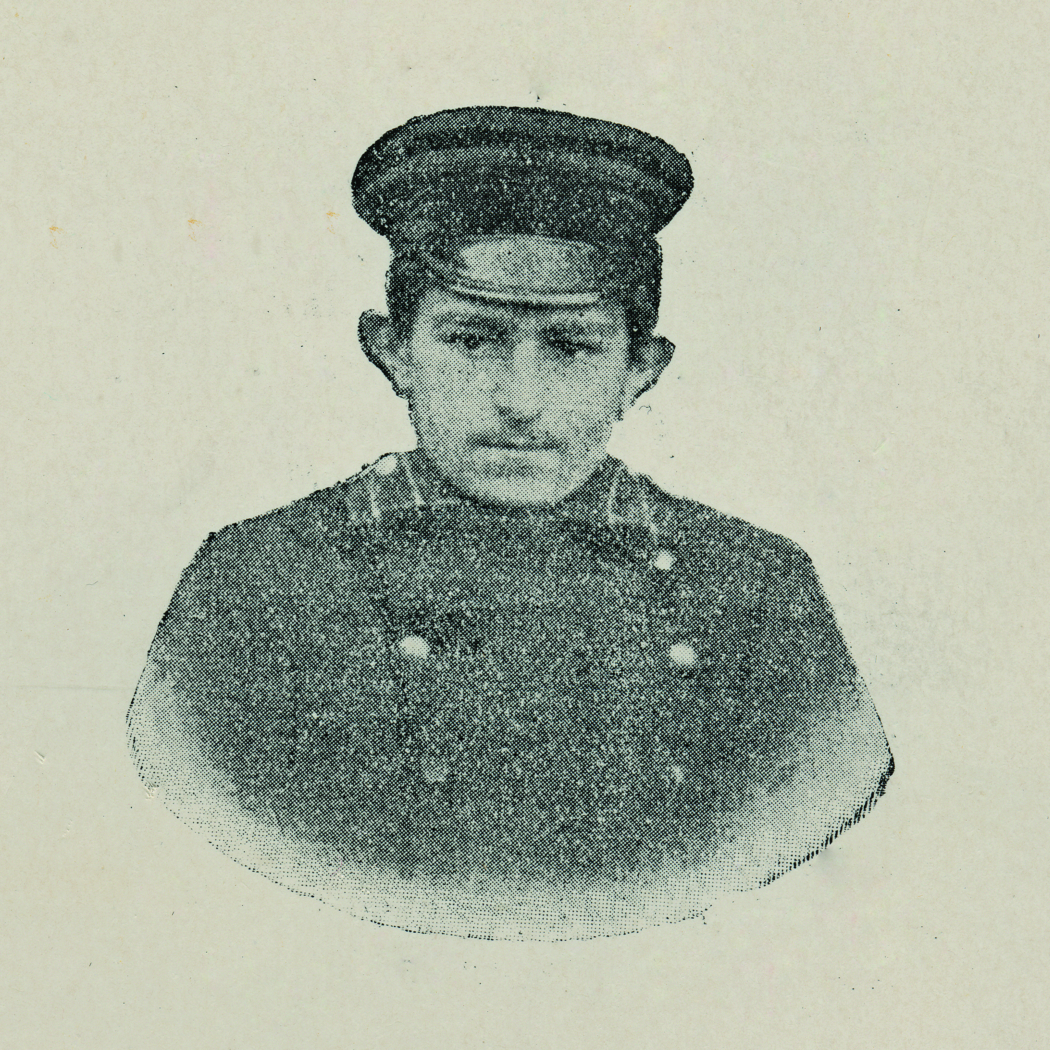 Vahan Teryan in his childhood